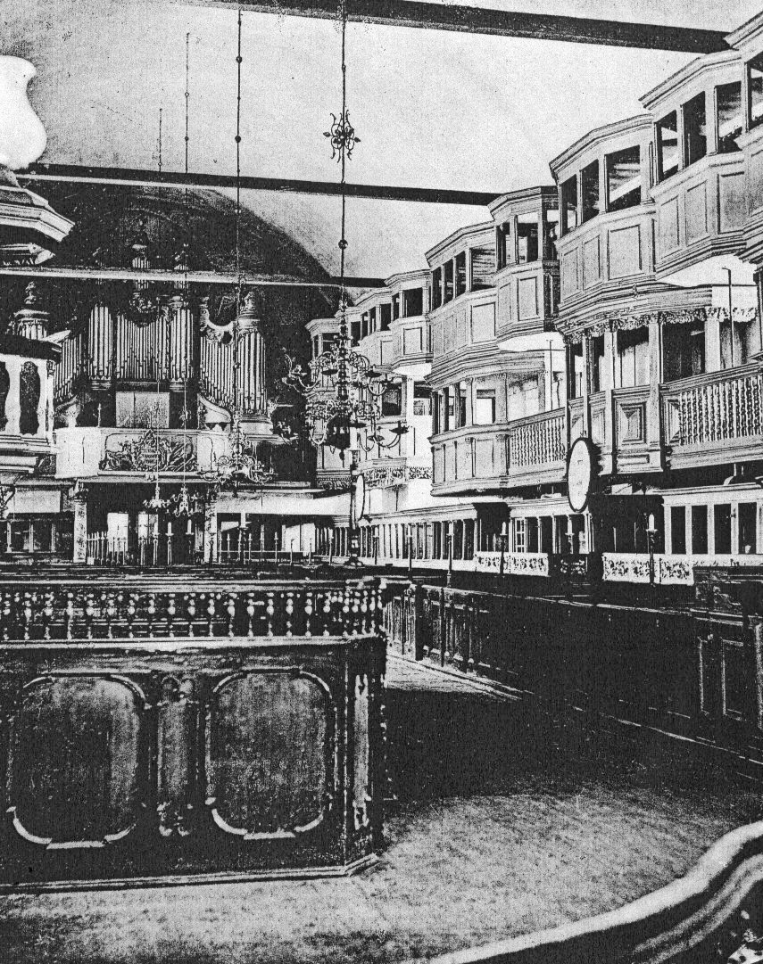 Interior view towards the west of Our Lady's church, Trondheim, Norway